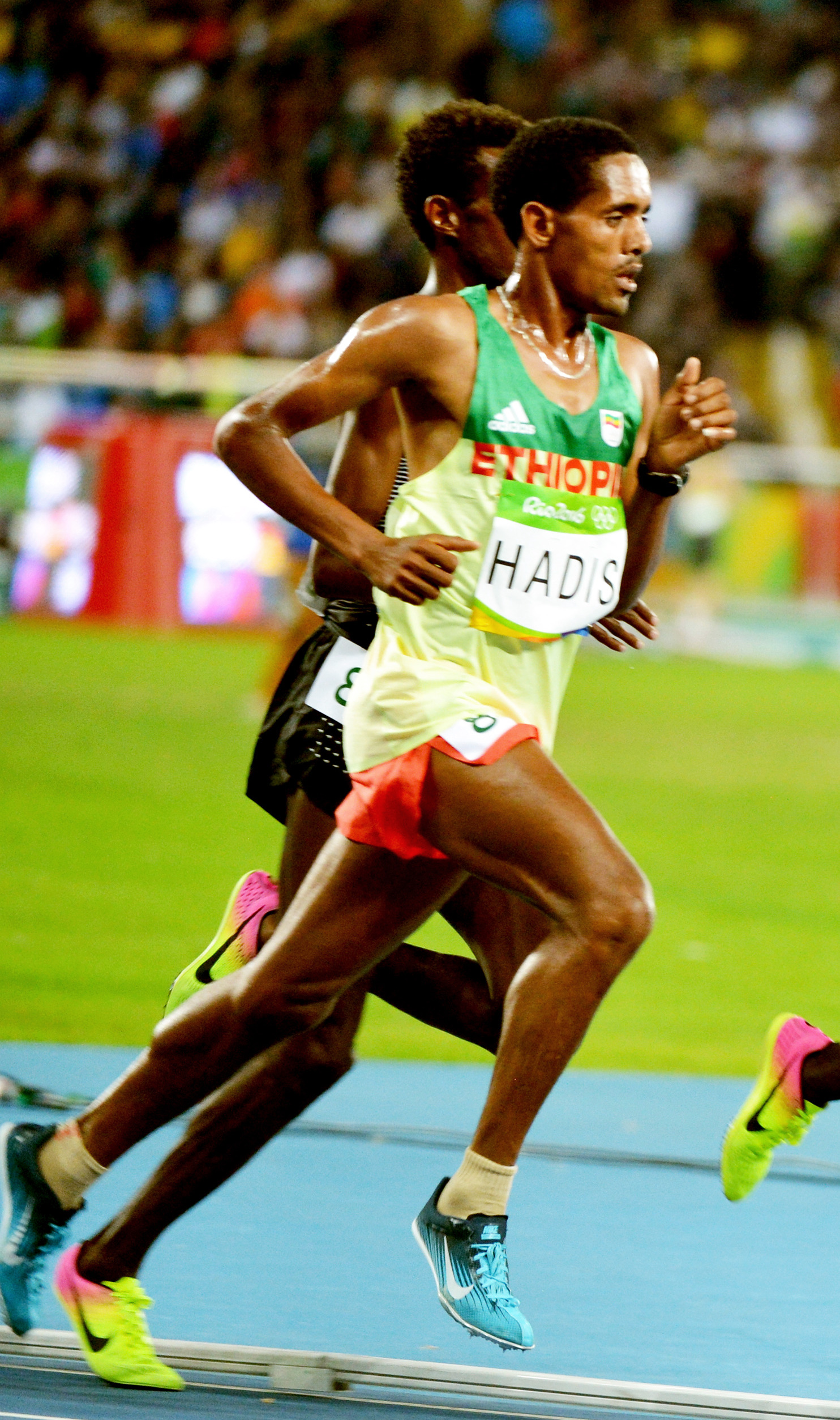 Spcs. Leonard Korir and Shadrack Kipchichir finish 14th and 19th respectively in the men's 3,000-meter run Aug. 13 at the 2016 Rio Olympic Games in Rio de Janeiro. Both Soldiers in the U.S. Army World Class Athlete Program turned in their season-best performaces, with Korir finishing in 27 minutes, 58.65 seconds and Kipchirchir clocked at 27:58.32. Mohamed Farah of Great Britain successfully defended his Olympic crown by winning the race in 27:05.17. Paul Kipnetech Tanui of Kenya took the silver in 27:05.64, and Tamirat Tola of Ethiopia claimed the bronze in 27:06.27. U.S. Army photo by Tim Hipps, IMCOM Public Affairs #SoldierOlympians #ArmyOlympians #ArmyTeam #TeamUSA #RoadToRio #ArmyStrong #GoArmy